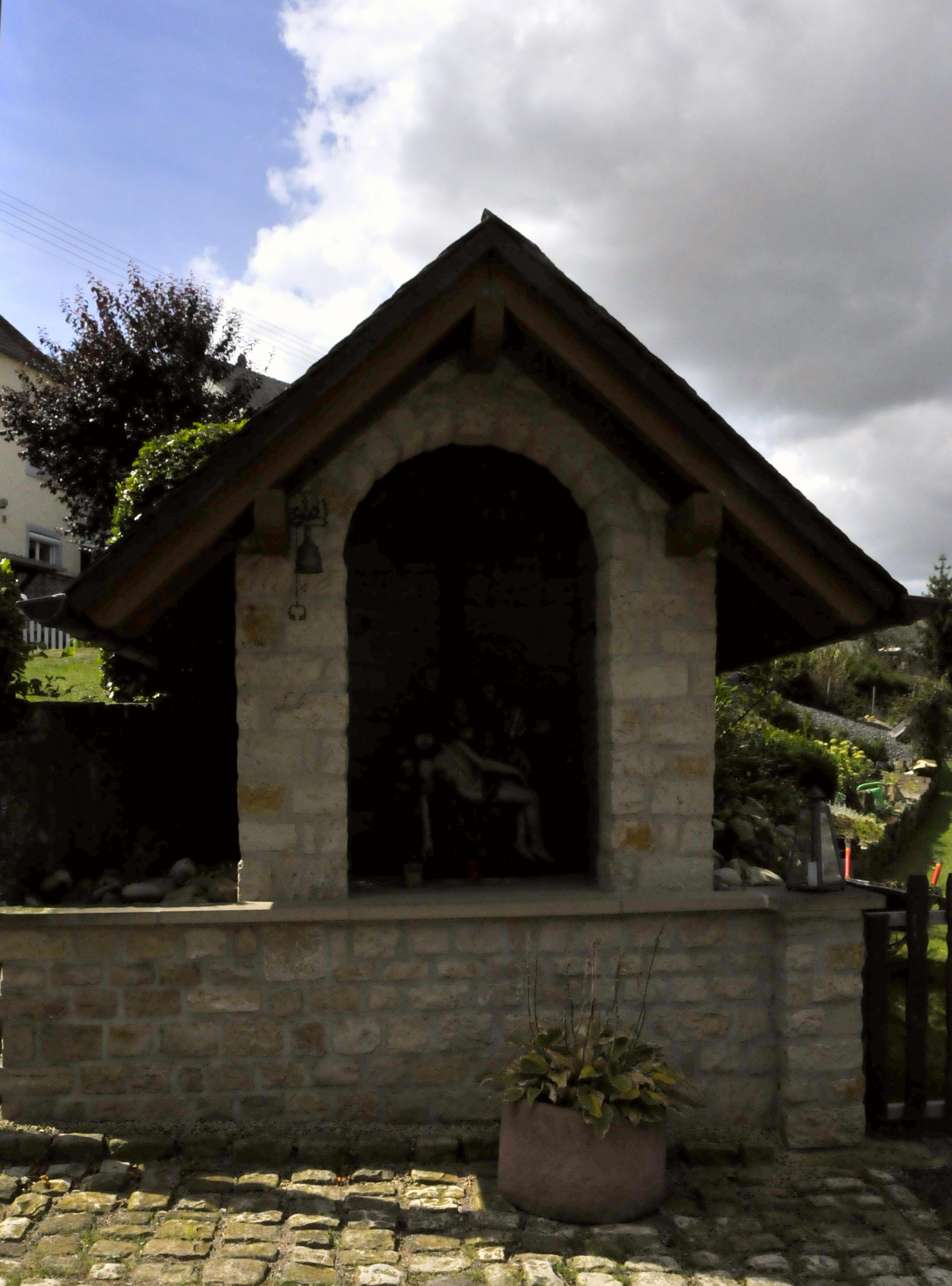 Körrig:Wayside shrine of family Henn-Scheuer